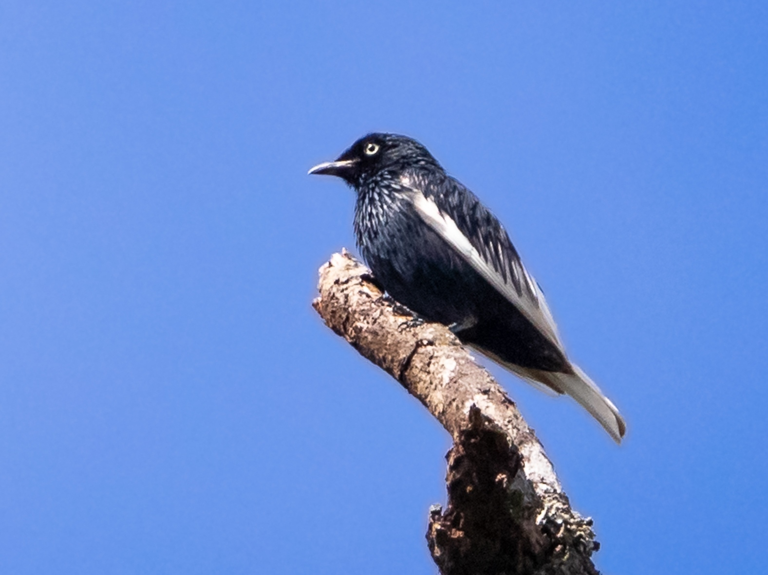 White-tailed Cotinga (male); Carajas National Forest, Para, Brazil